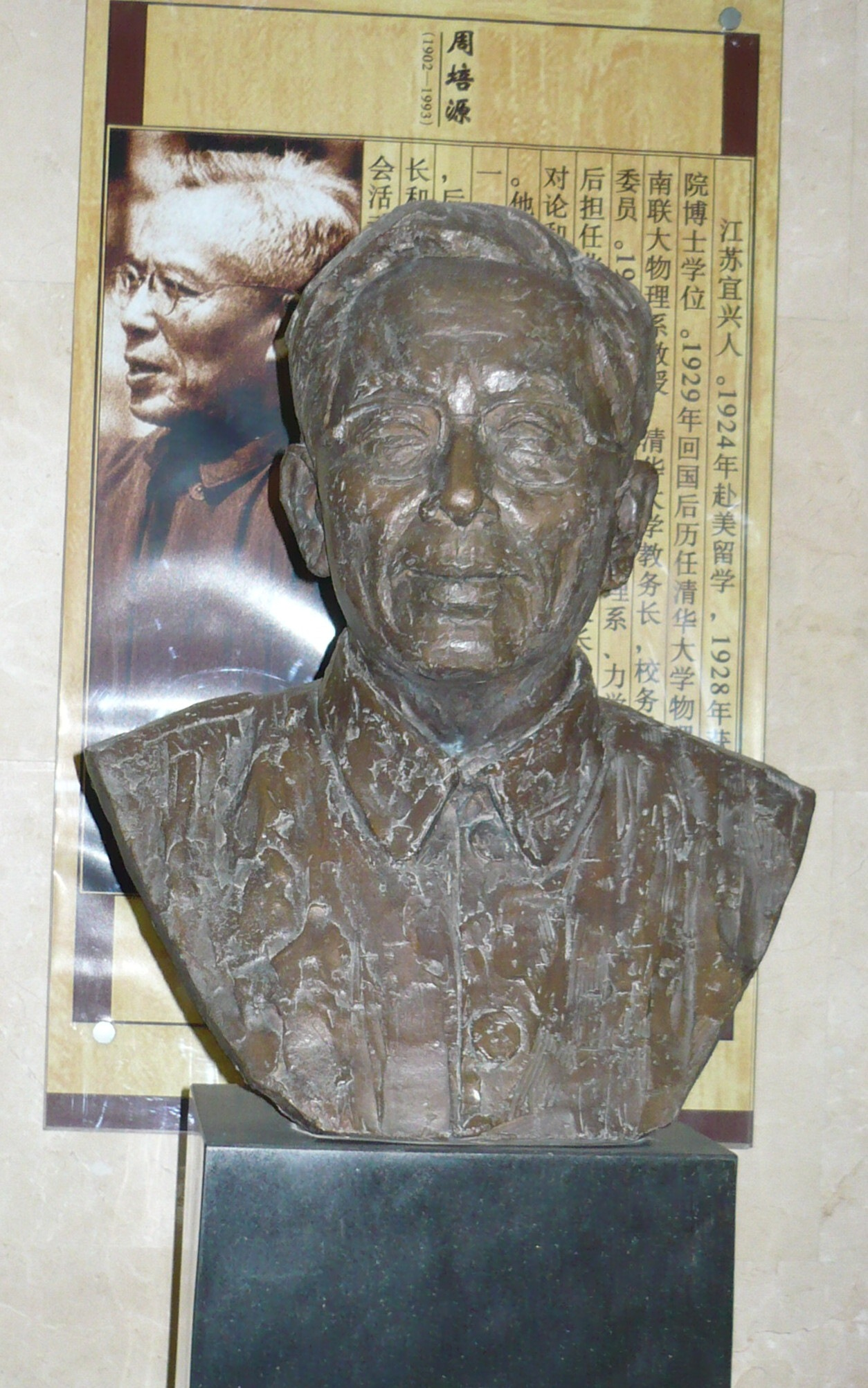 Bronze bust of professor Zhou Peiyuan at Department of Physics, Peking University